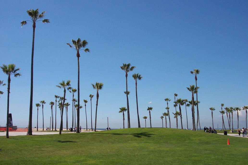 Venice Beach (Los Angeles) - on Santa Monica Bay. -1 Licensing